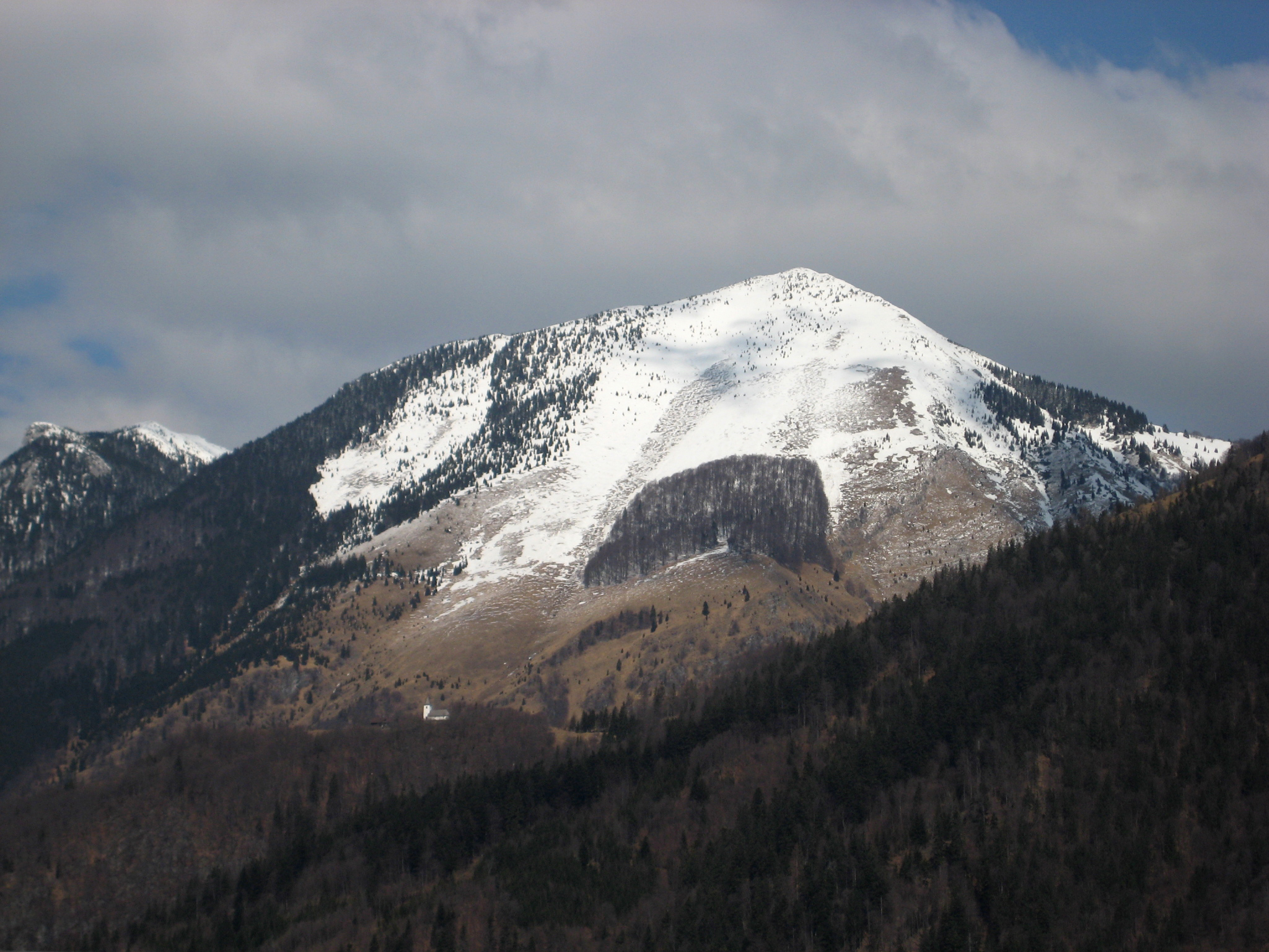 Zaplata, mountain in Slovenia